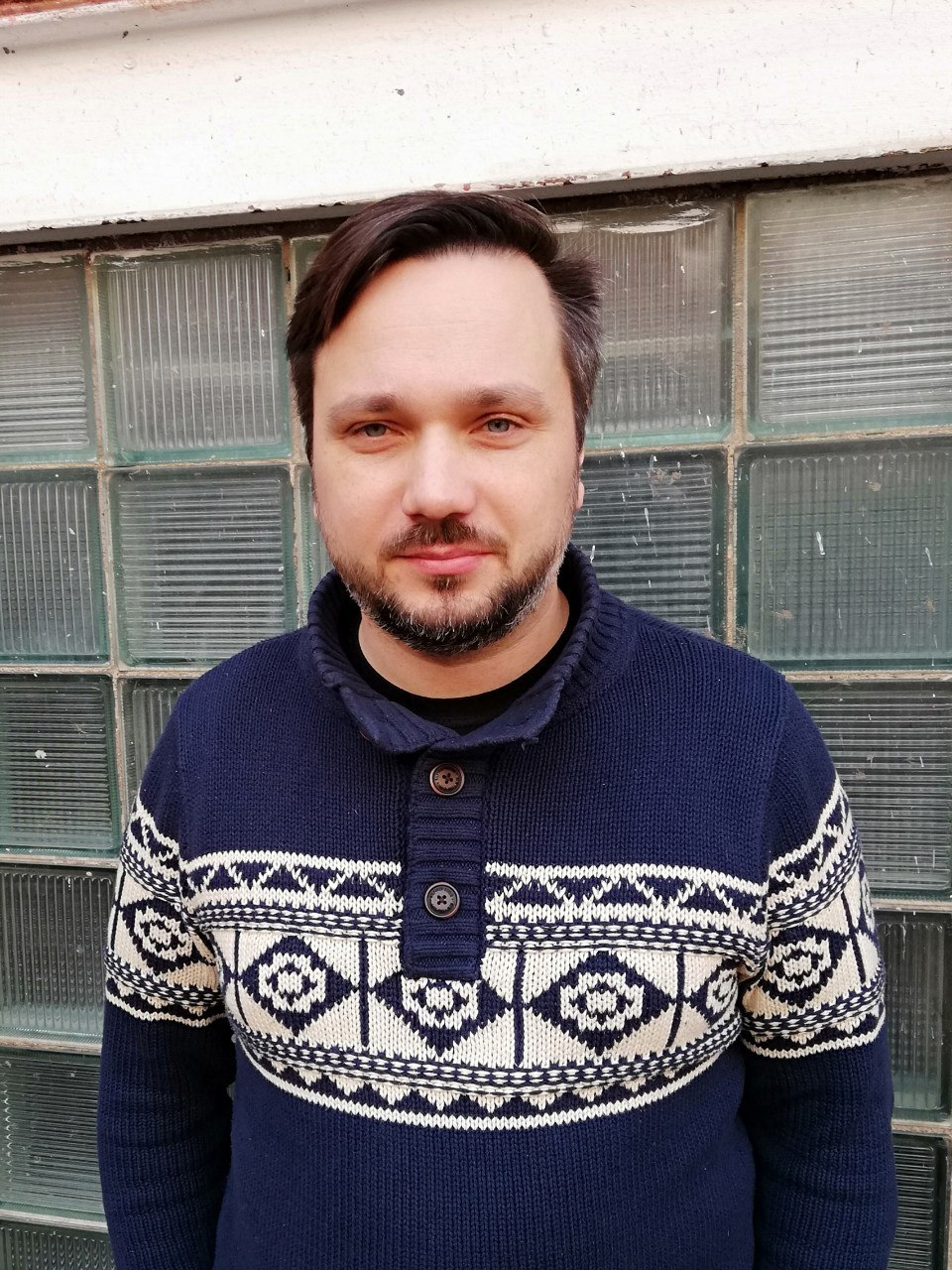 Nikoly Kononov at InLiberty space